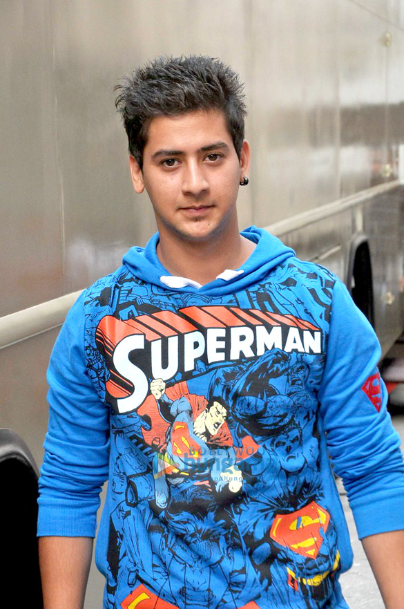 Arora promoting 'Rajjo'